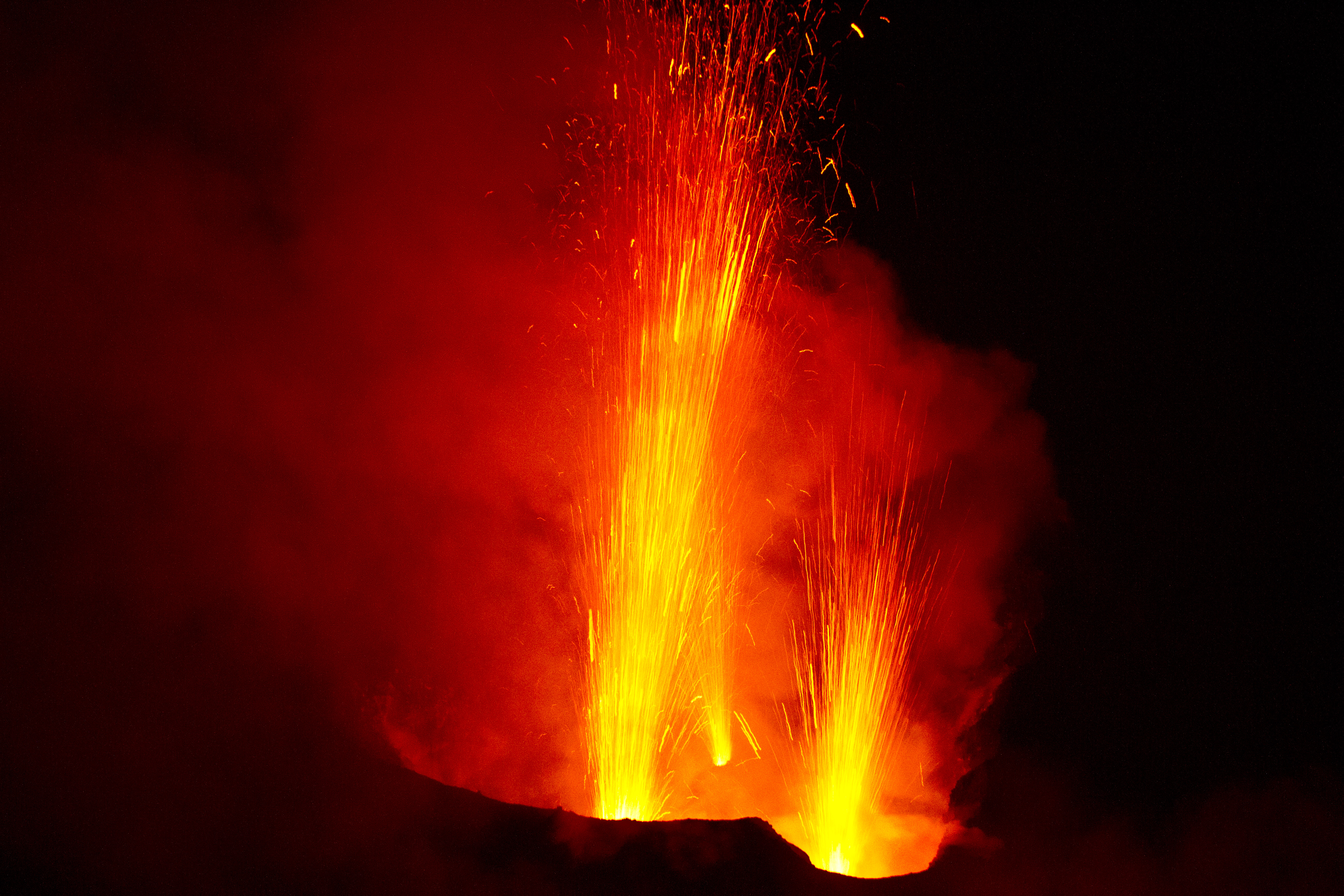 On the top